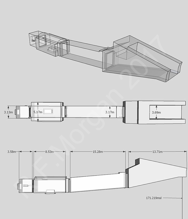 Isometric, plan and elevation images of KV1 taken from a 3d model